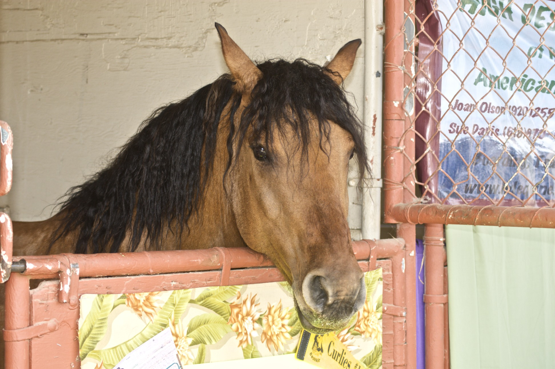 bashkir curly